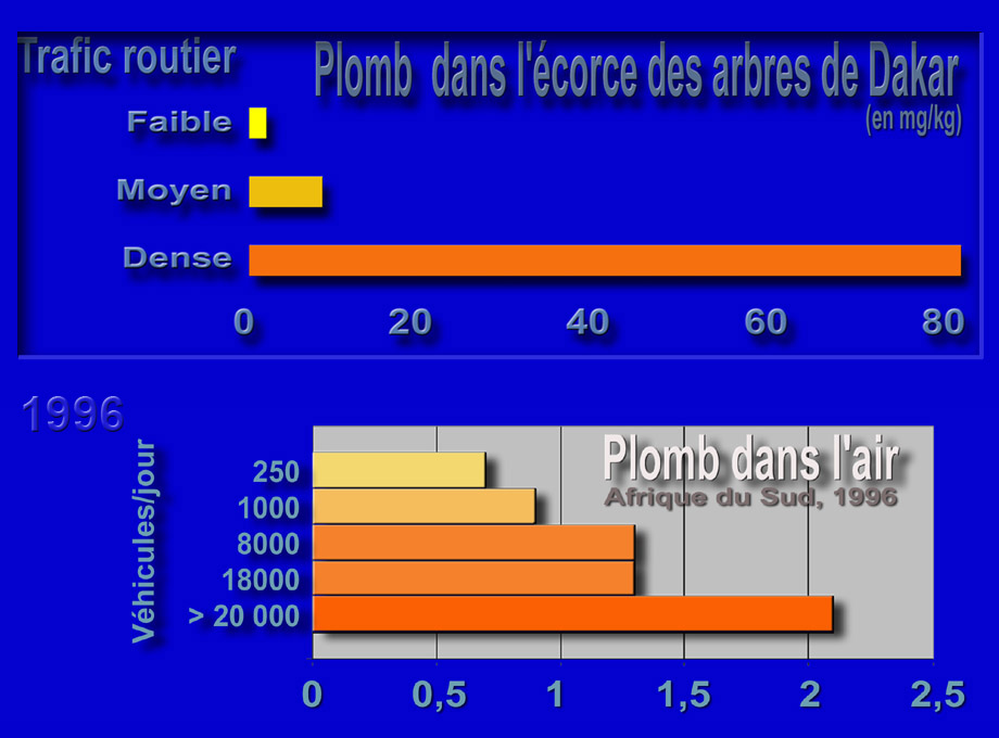 Lead in trees' bark , and in air in South-Africa Now with the ban or reduction of lead in motor fuels in most countries, the level of lead in air has decreased significantly. But it may remain trapped in the wood of trees, and then poison the insects or birds or bats insectivorous. Cook food on wood that drove near a major thoroughfare is a possible source of food contamination by lead (barbecue grills ...). The smoke from the firewood will be another possible source of air pollutionSee also (source)